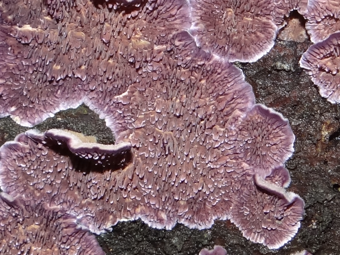 Trichaptum fuscoviolaceum (on Abies alba)